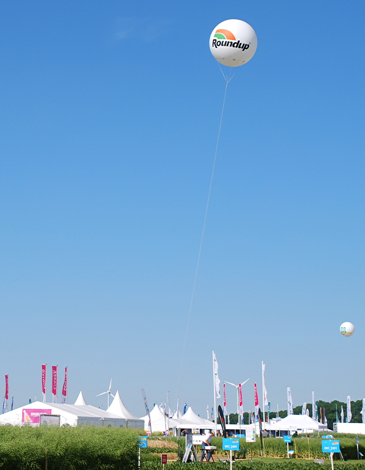 Balloon advertising Monsanto's Roundup brand; DLG field days 2010, Gut Bockerode, Springe-Mittelrode, Lower Saxony, Germany.